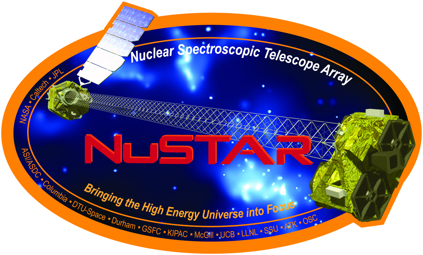 NASA's Nuclear Spectroscopic Telescope Array (NuSTAR) will be the first sensitive, focusing high energy X-ray telescope to orbit the Earth. NuSTAR will investigate the hottest regions in the Universe, studying sources ranging from neutron stars to supernovae to black holes and the Sun. Because of its focusing optics and improved detectors, NuSTAR will be sensitive to objects one hundred times fainter than any previous mission working at these energies. Developed by an international team, this Small Explorer mission will launch in 2012, and spend at least two years observing the high energy Universe.